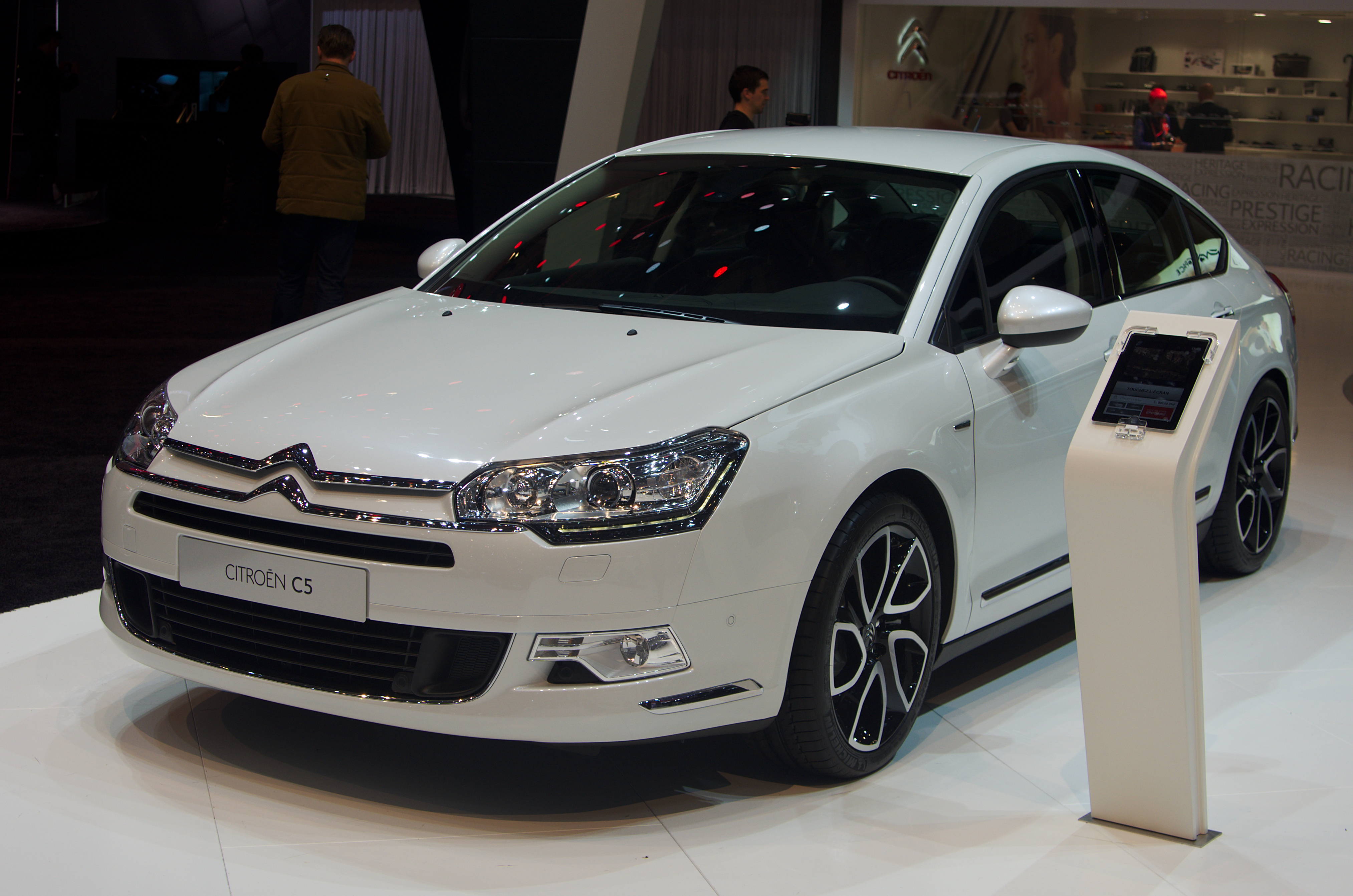 Geneva MotorShow 2013 - Citroen C5 front right